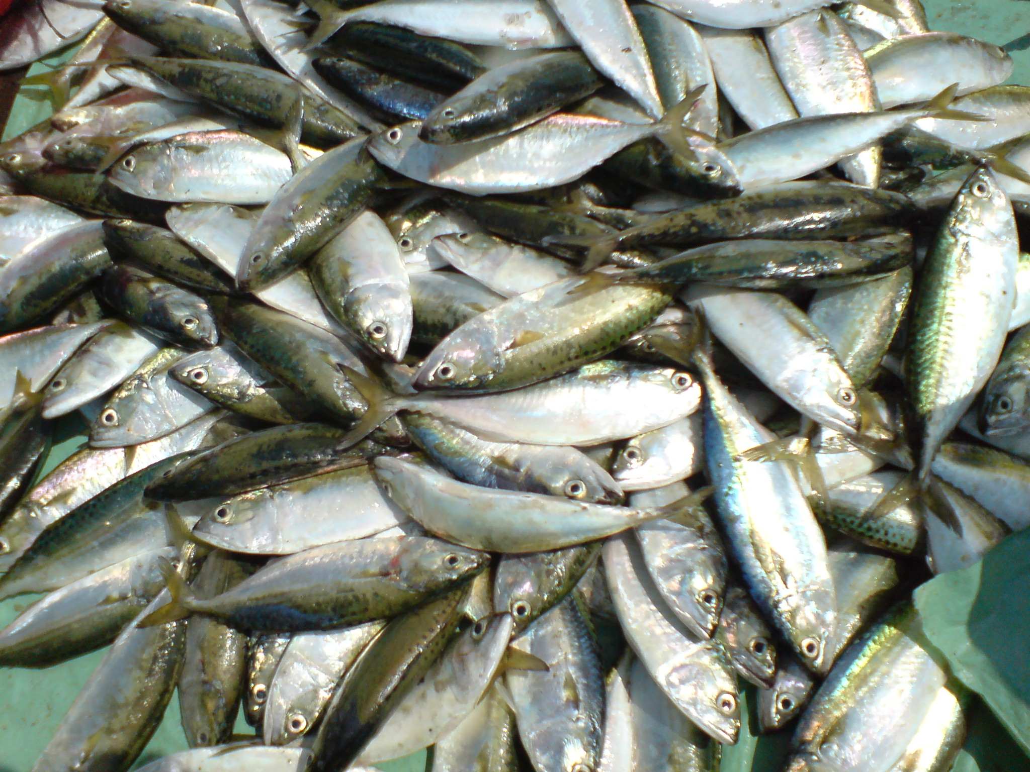 Bangude- Mackerel fish- Mangaluru dock market, Karnataka, India ಕನ್ನಡ: ಬಂಗುಡೆ ಮೀನು- ಮಂಗಳೂರು ಧಕ್ಕೆಯ ಮಾರುಕಟ್ಟೆಯಲ್ಲಿ, ಕರ್ನಾಟಕ, ಭಾರತ.